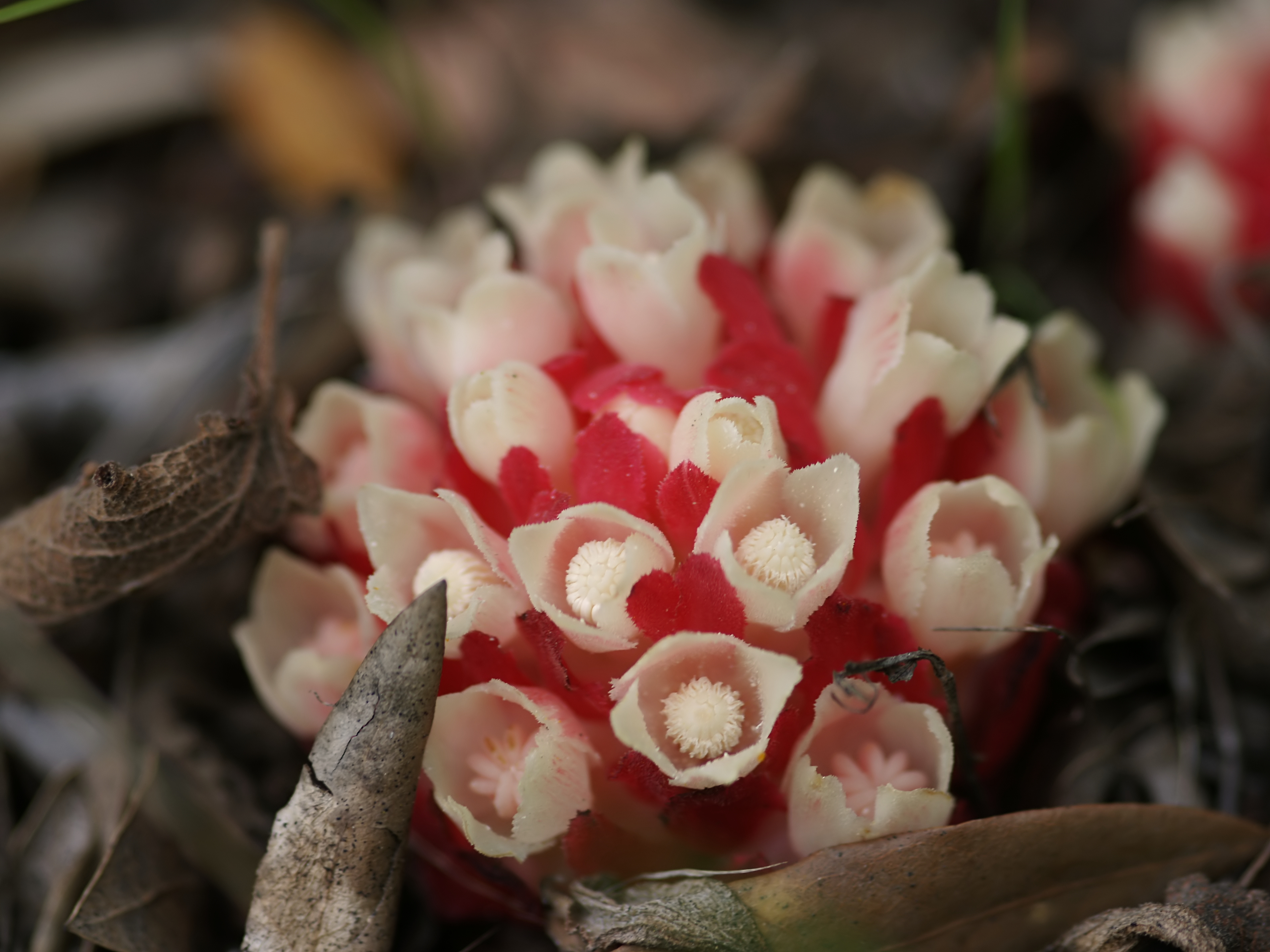 A chlorophyll lacking root-parasite of pink flowering Cistus bushes on the way to Su Gorropu, Sardinia, Italy